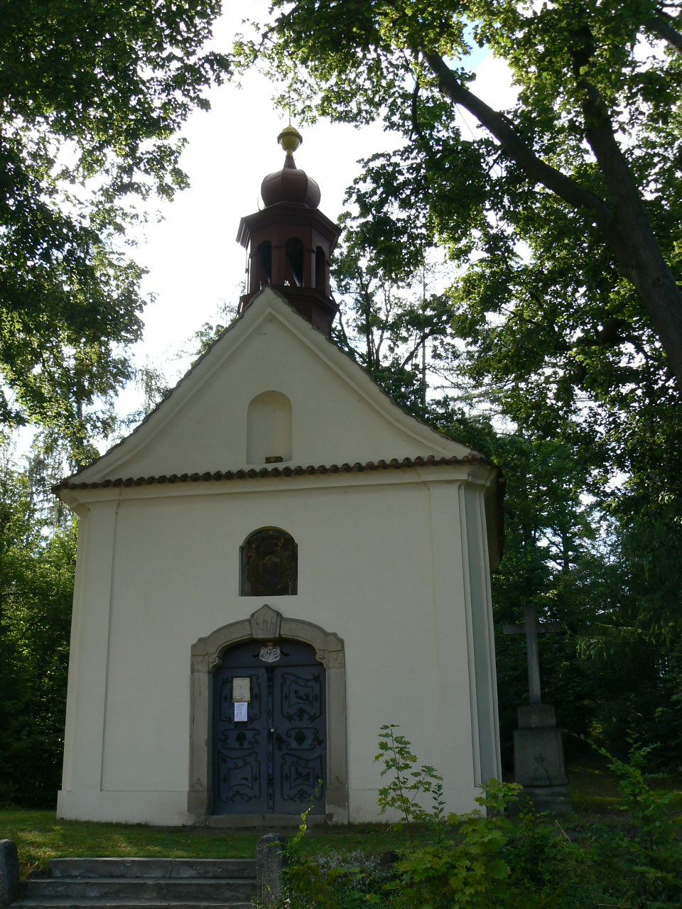 Pilgrim Chapel of the Visitation, Malá Svatá hora, Central Bohemian Region, Czechia